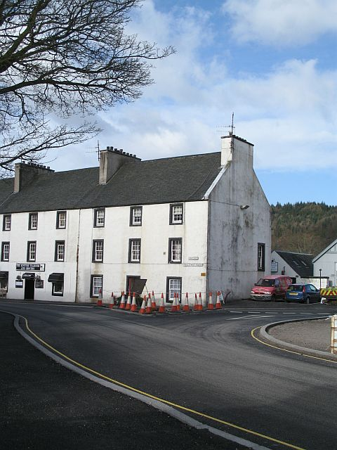 Main Street, Inveraray Just south of the church.